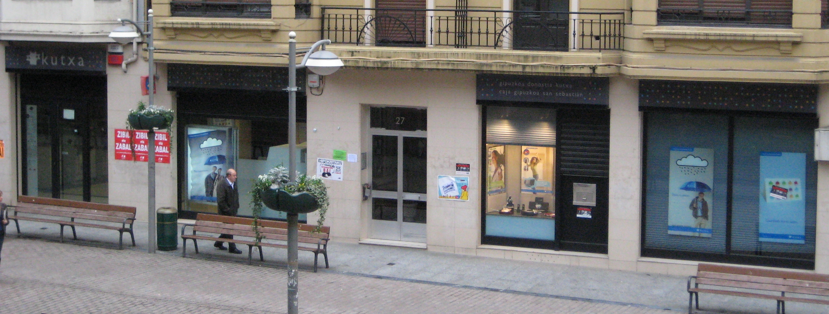 Kutxa Office in Eibar, Guipuscoa.